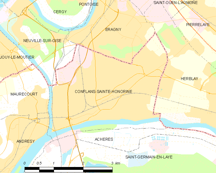 Map of French municipality Conflans-Sainte-Honorine